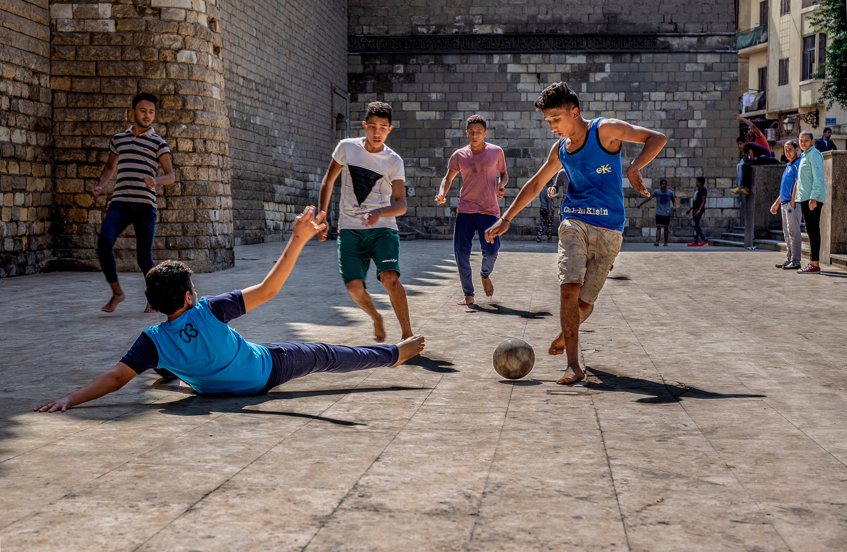 Children playing street football in Egypt, one of the most famous games in Africa. Boys playing hard and showing their skills and how talented they are . This is an image with the theme "Play" from: Egypt